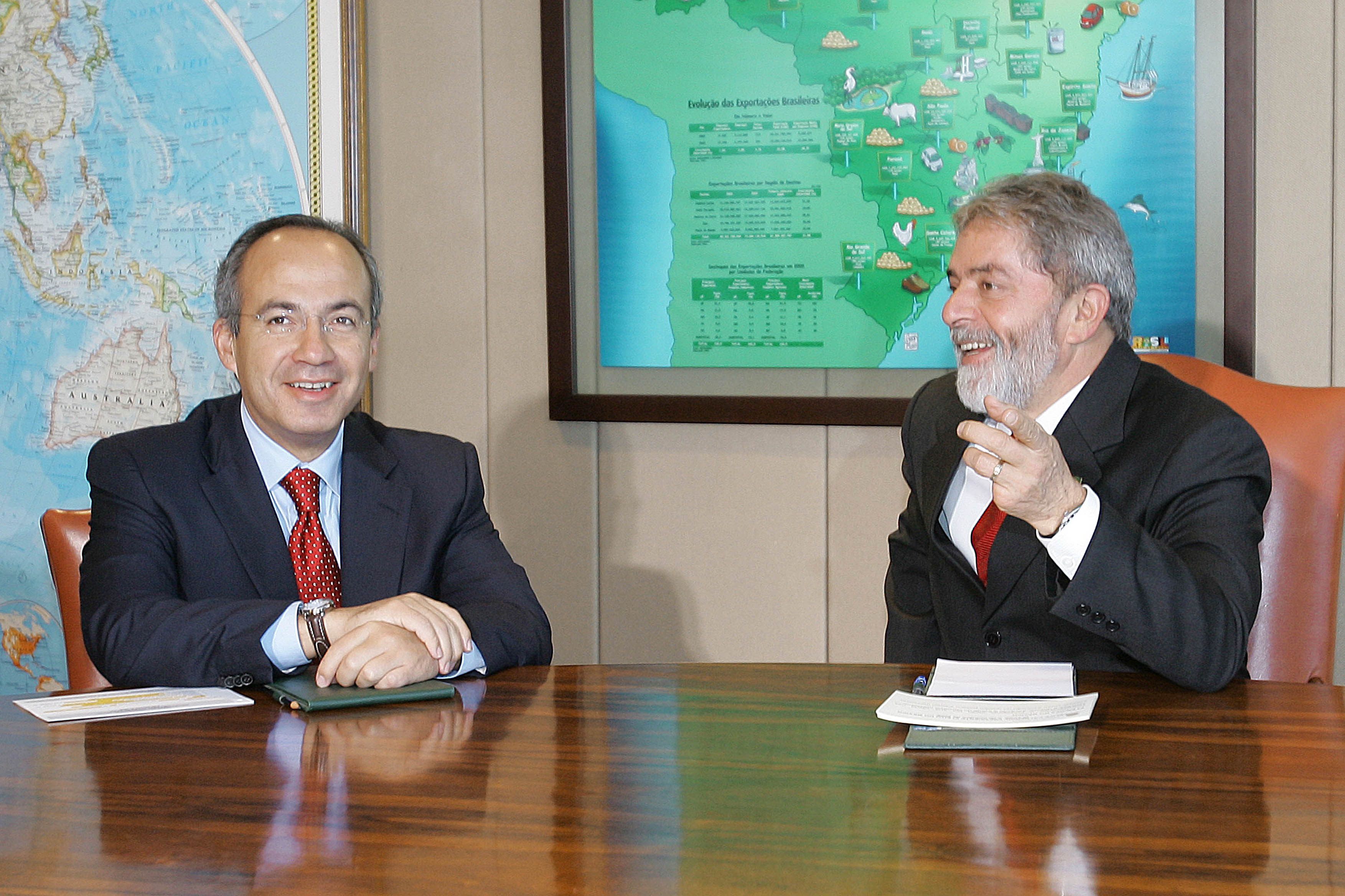 Felipe Calderón, president-elect of Mexico (left) and Luiz Inácio Lula da Silva, president of Brazil (right).